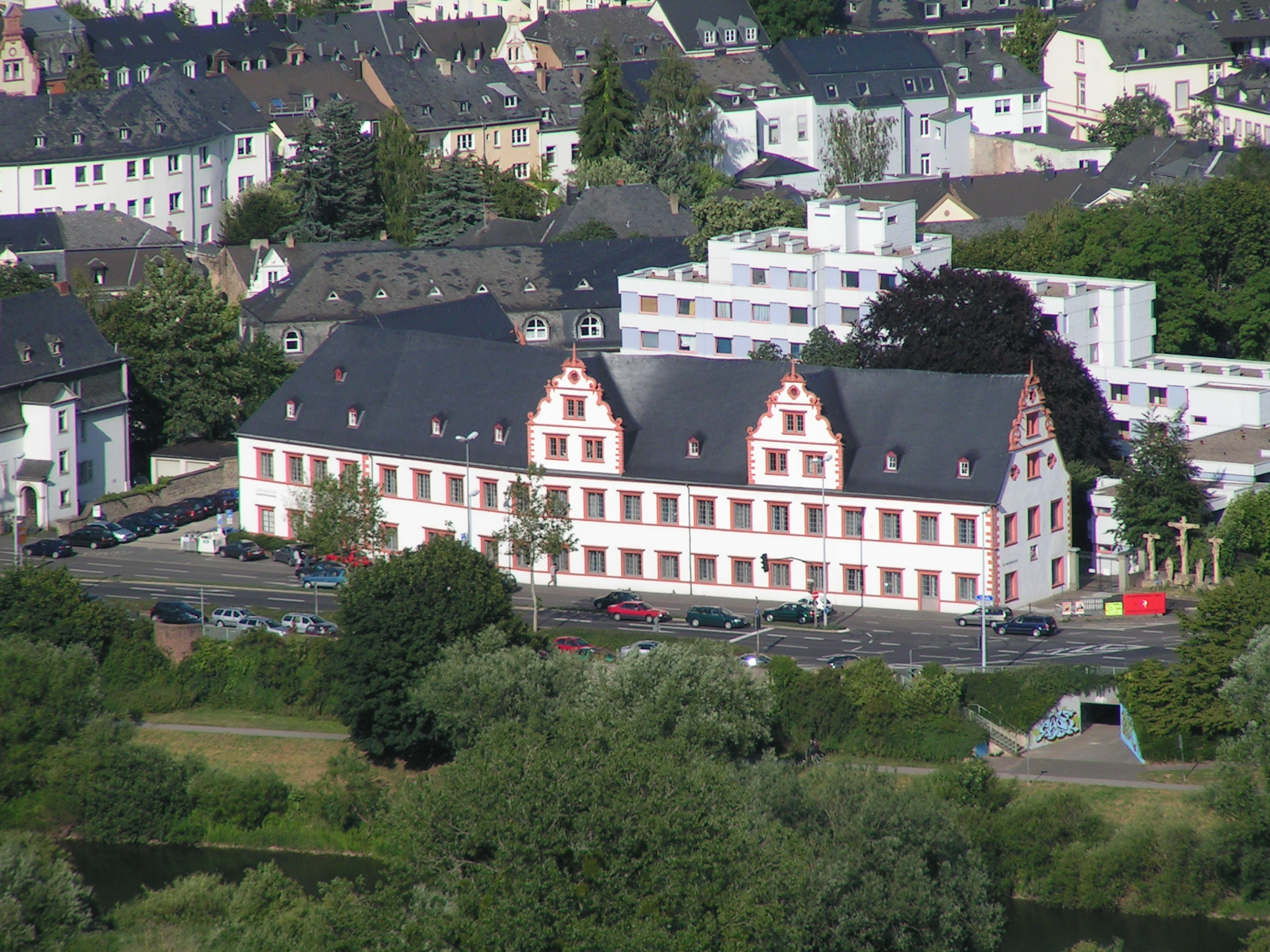 Martinskloster in Trier, Germany